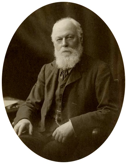 Carey Foster, photo from the University of Strathclyde. Created before Foster's death in 1913.